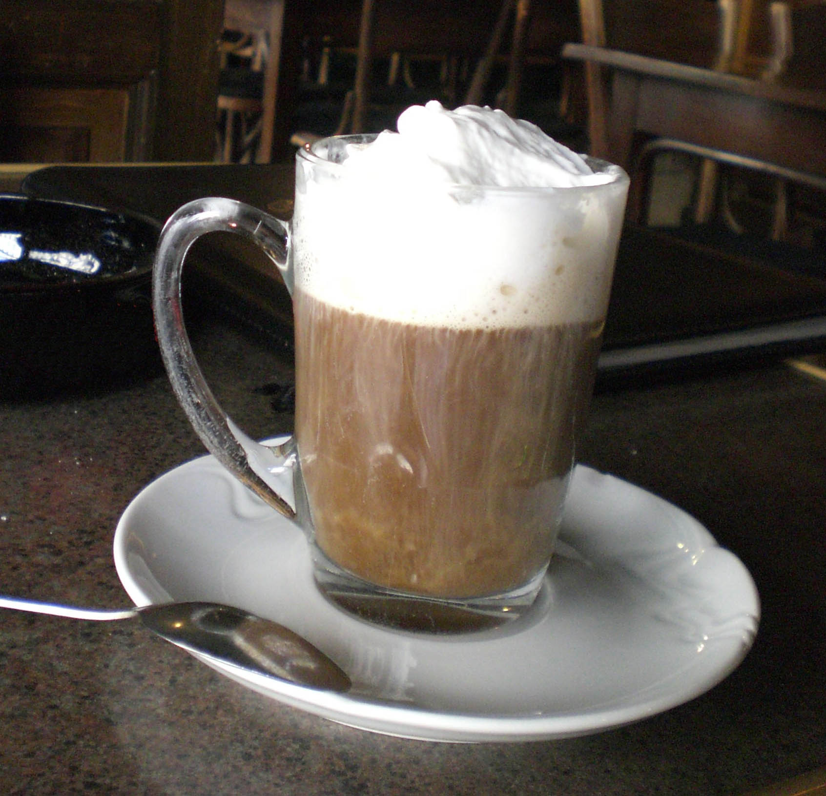 Taken by me in Prague